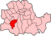 Map of the Metropolitan borough of Battersea, former County of London.